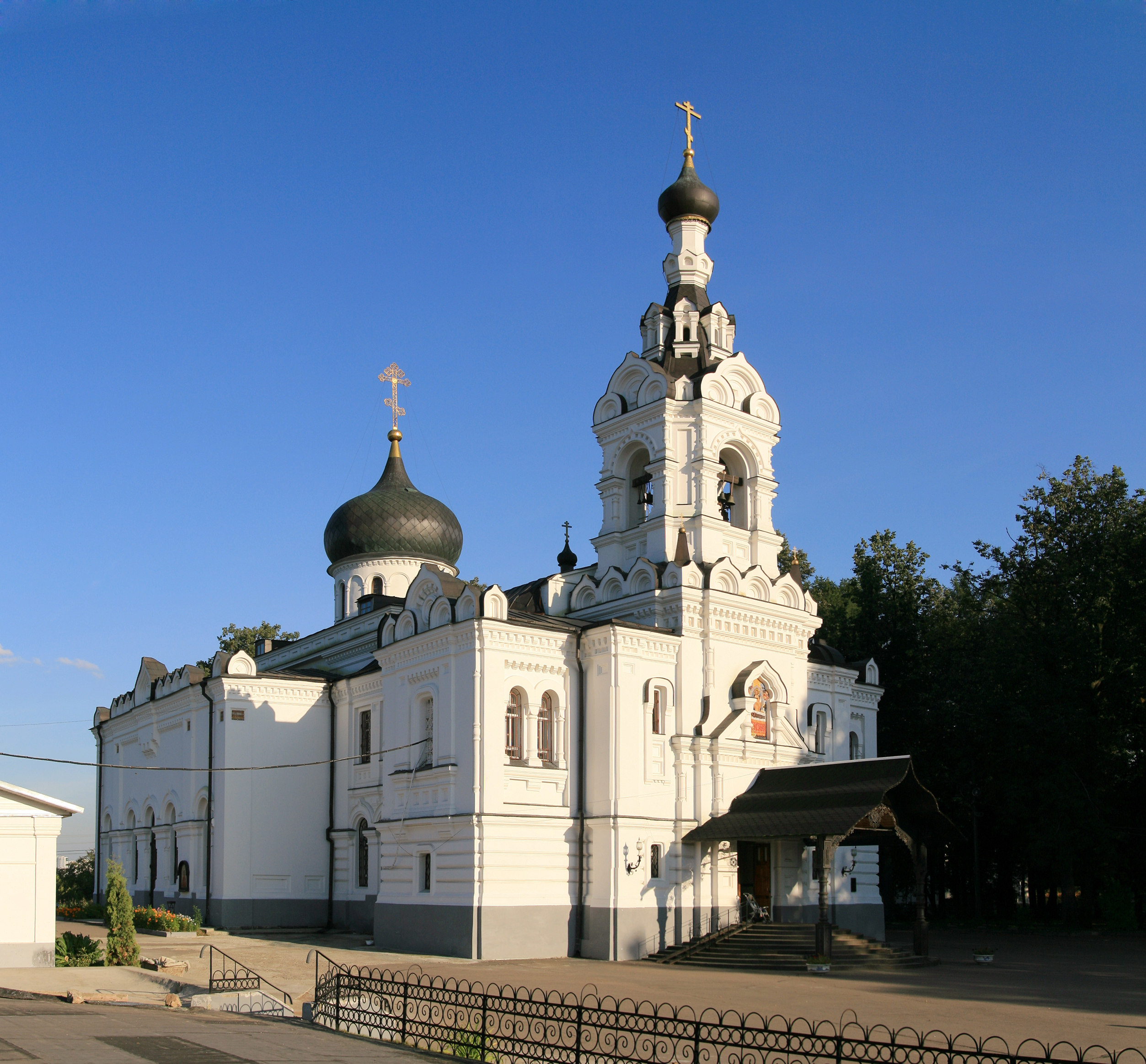 Church of Dormition in Troitse-Lykovo, 1850s, Moscow